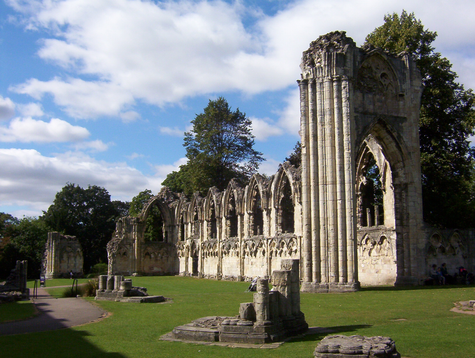 St Mary's Abbey Church in Museum Gardens York, England. This shows the ruins of part of the north and west walls that formed the nave and crossing, designed in Gothic style by architect Simon of Pabenham in the 13th century, between between 1270 and 1279.